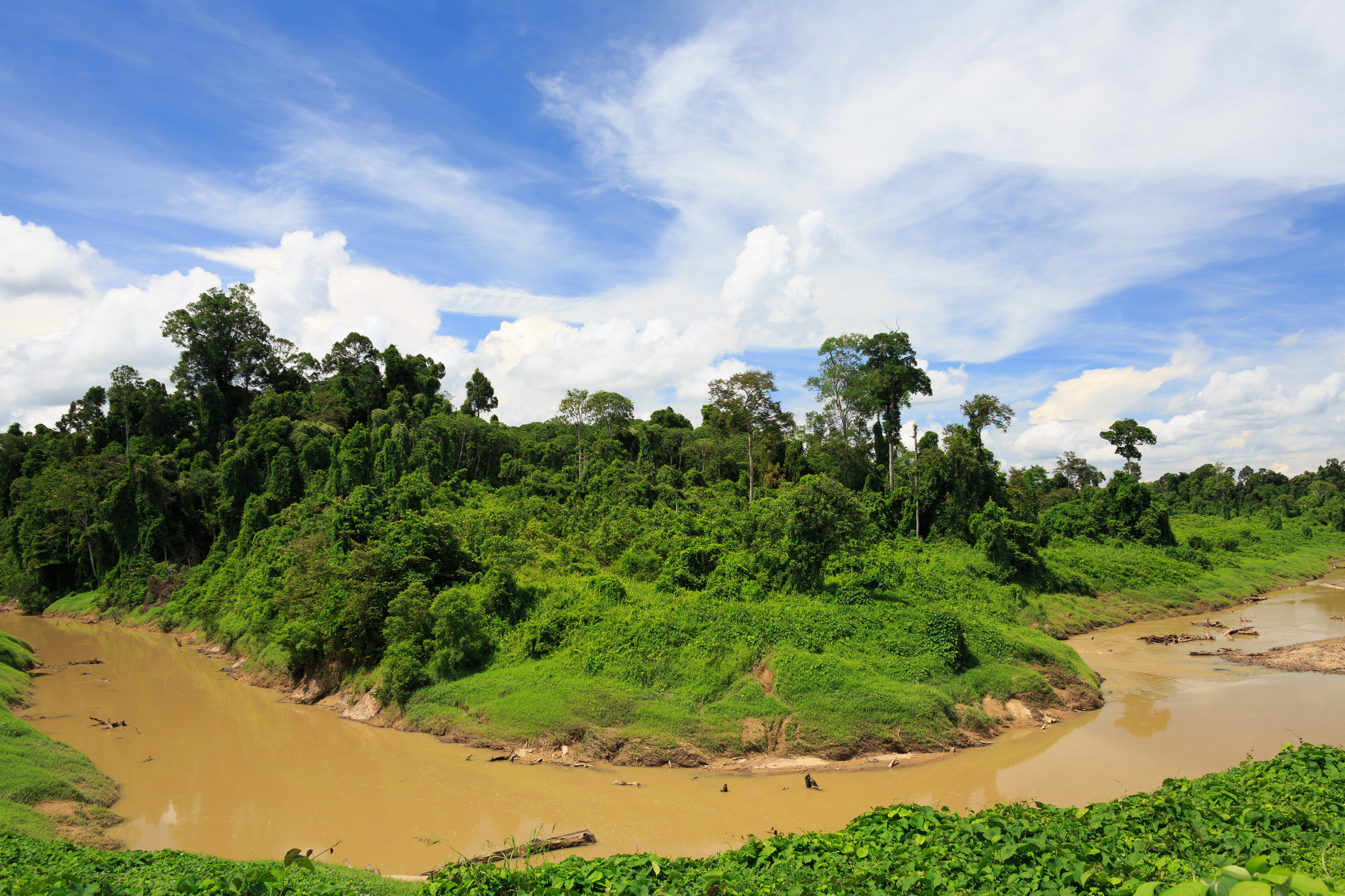 Rivers of Sabah, Malaysia: Sungai Kalabakan, about 15 Kilometers northwest of Kalabakan